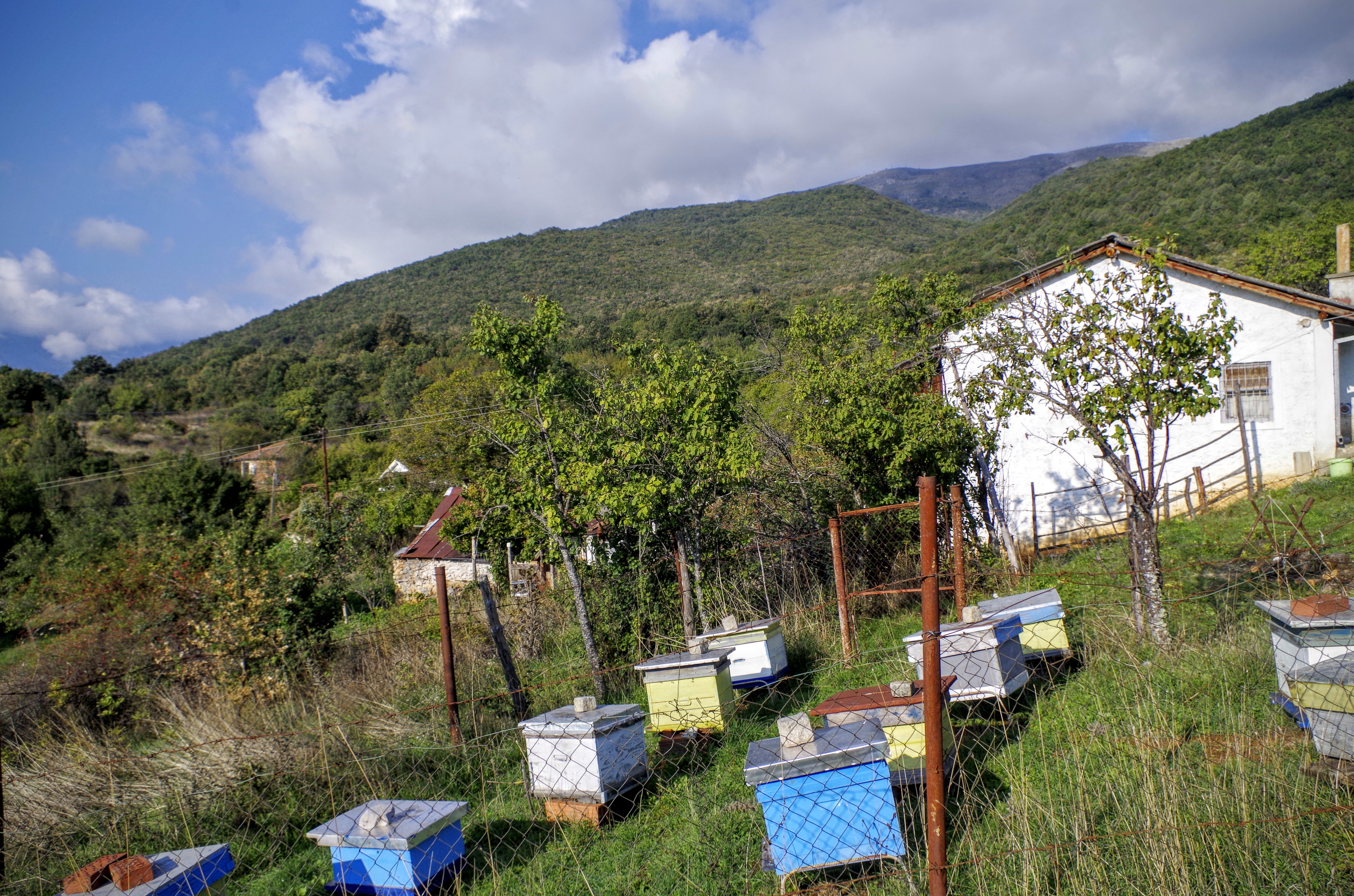 View of the village Oteševo